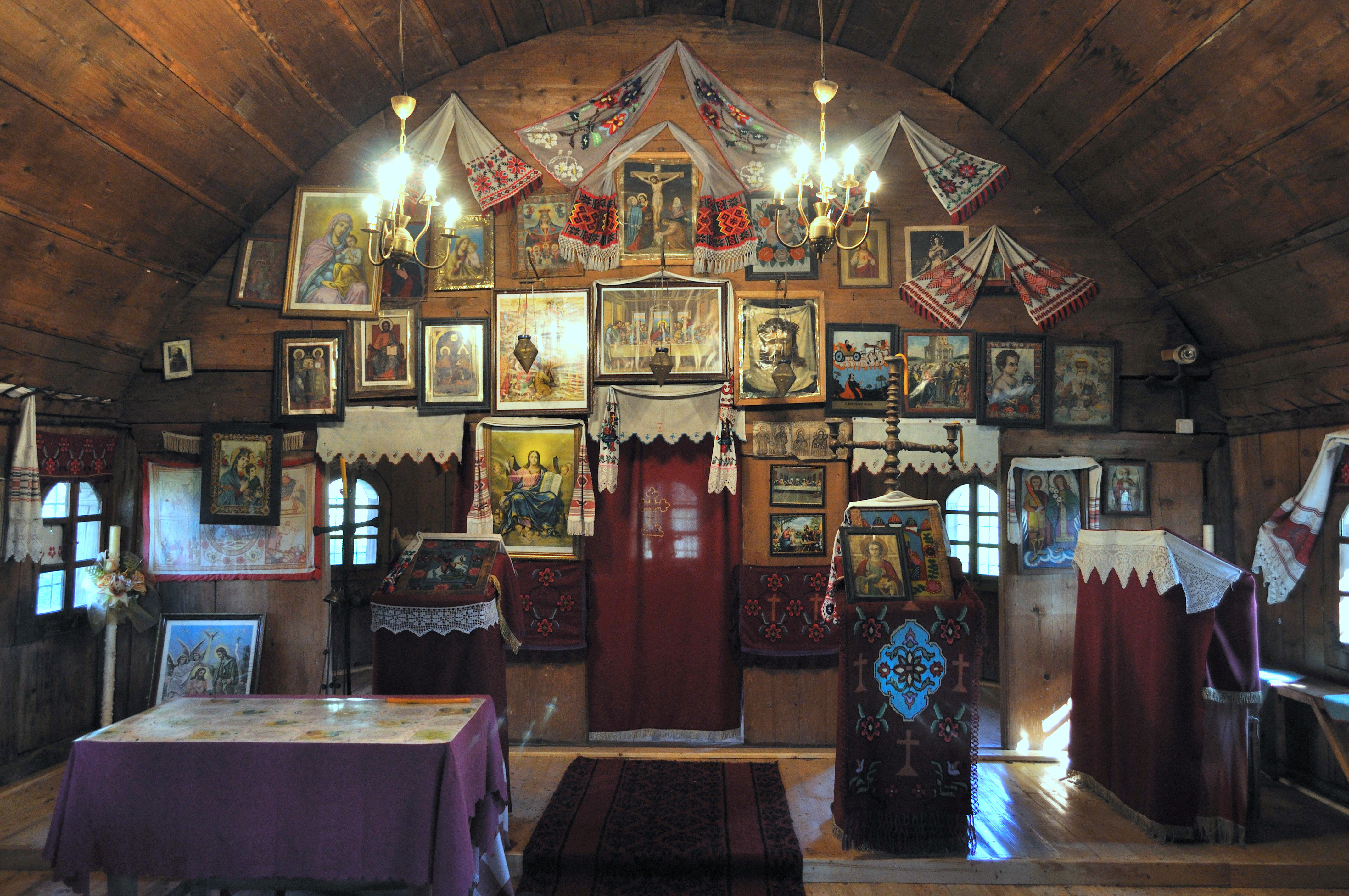 Wooden church in Muncelu Mare , Hunedoara county, Romania